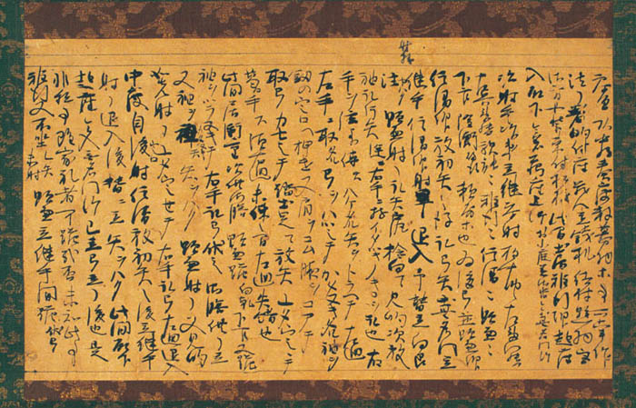 Meigetsuki(partial) Fujiwara no Teika(1162-1241)